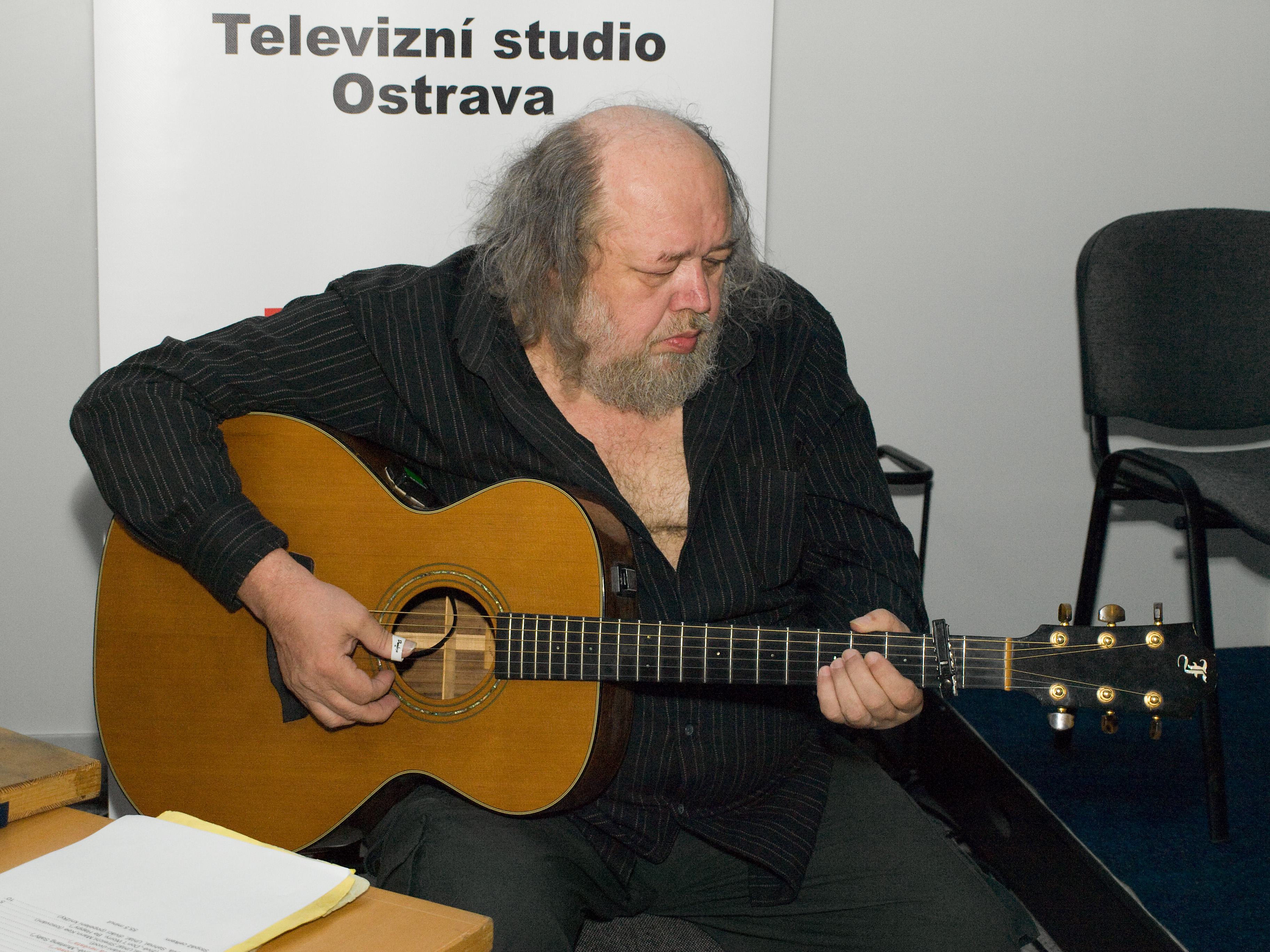 Czech singer-songwriter Pepa Streichl in Ostrava